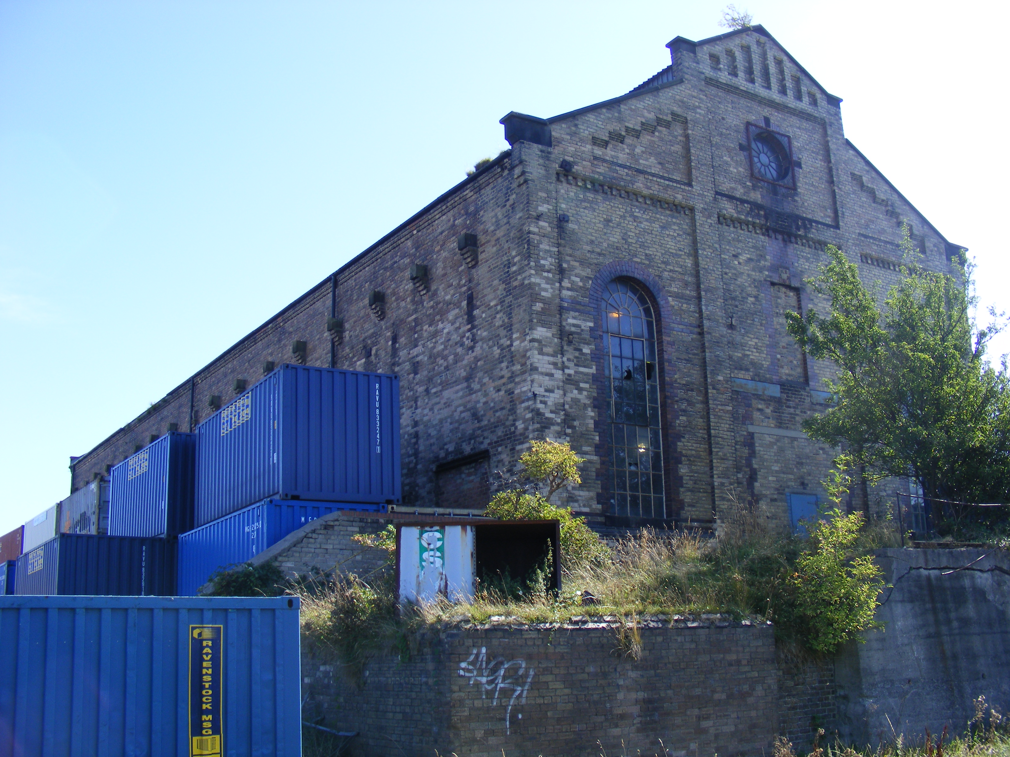 Philadelphia power station near Houghton-le-Spring, Tyne and Wear